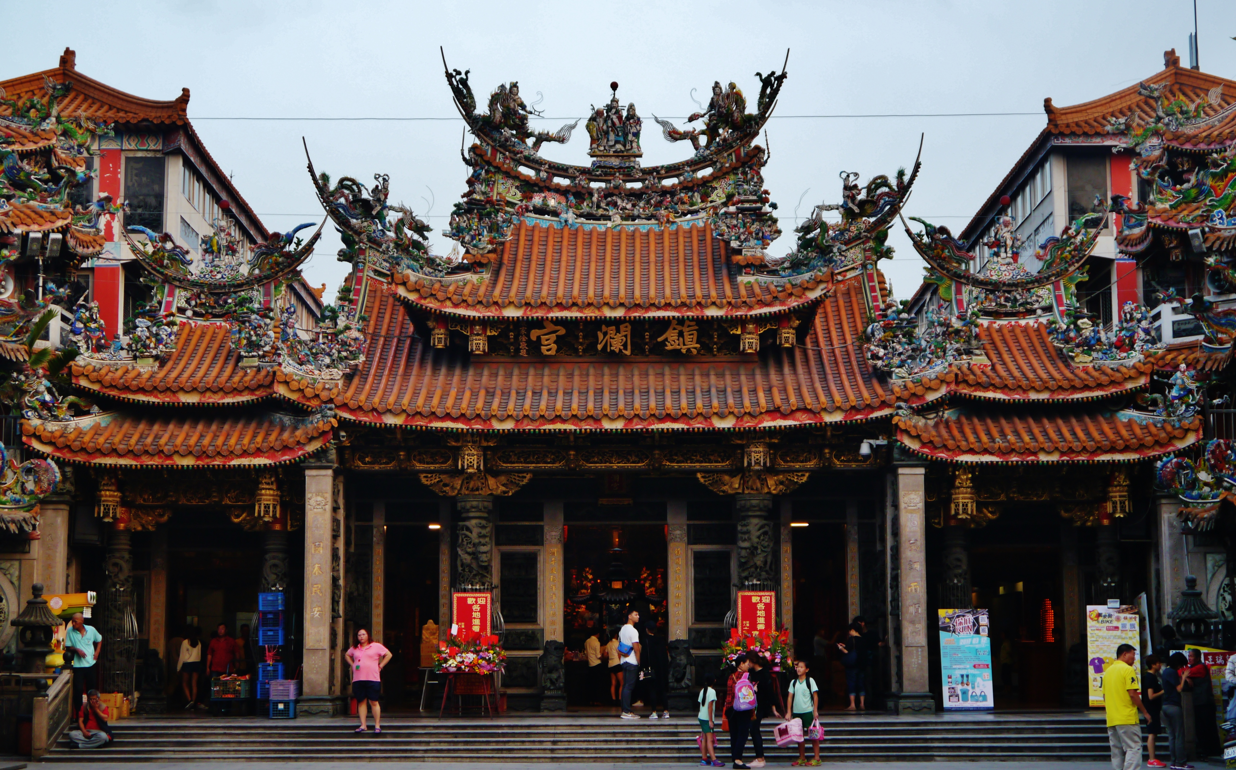 Mazu/Jenn Jann Temple, Dajia District, Taichung, Taiwan